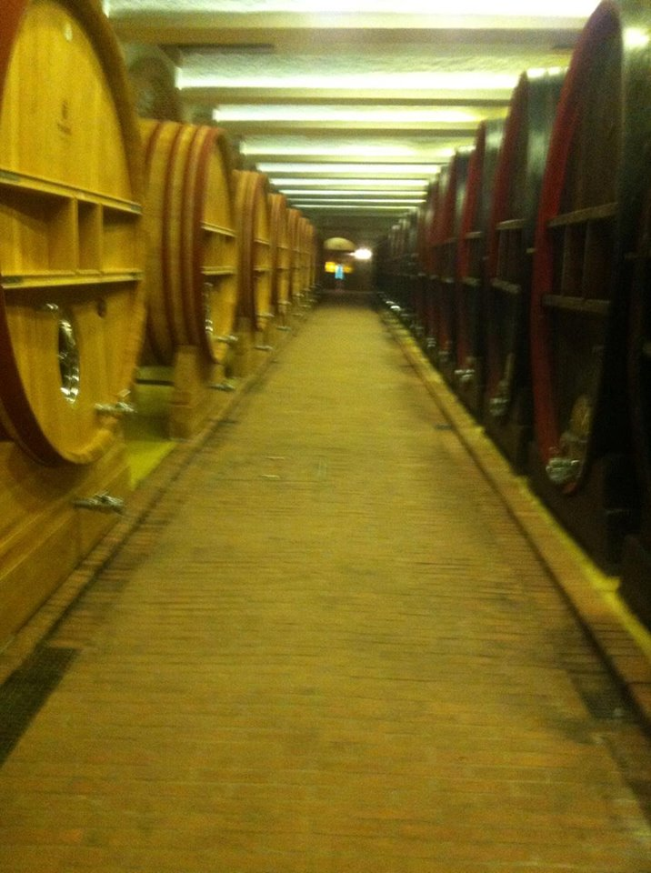 tikves winery